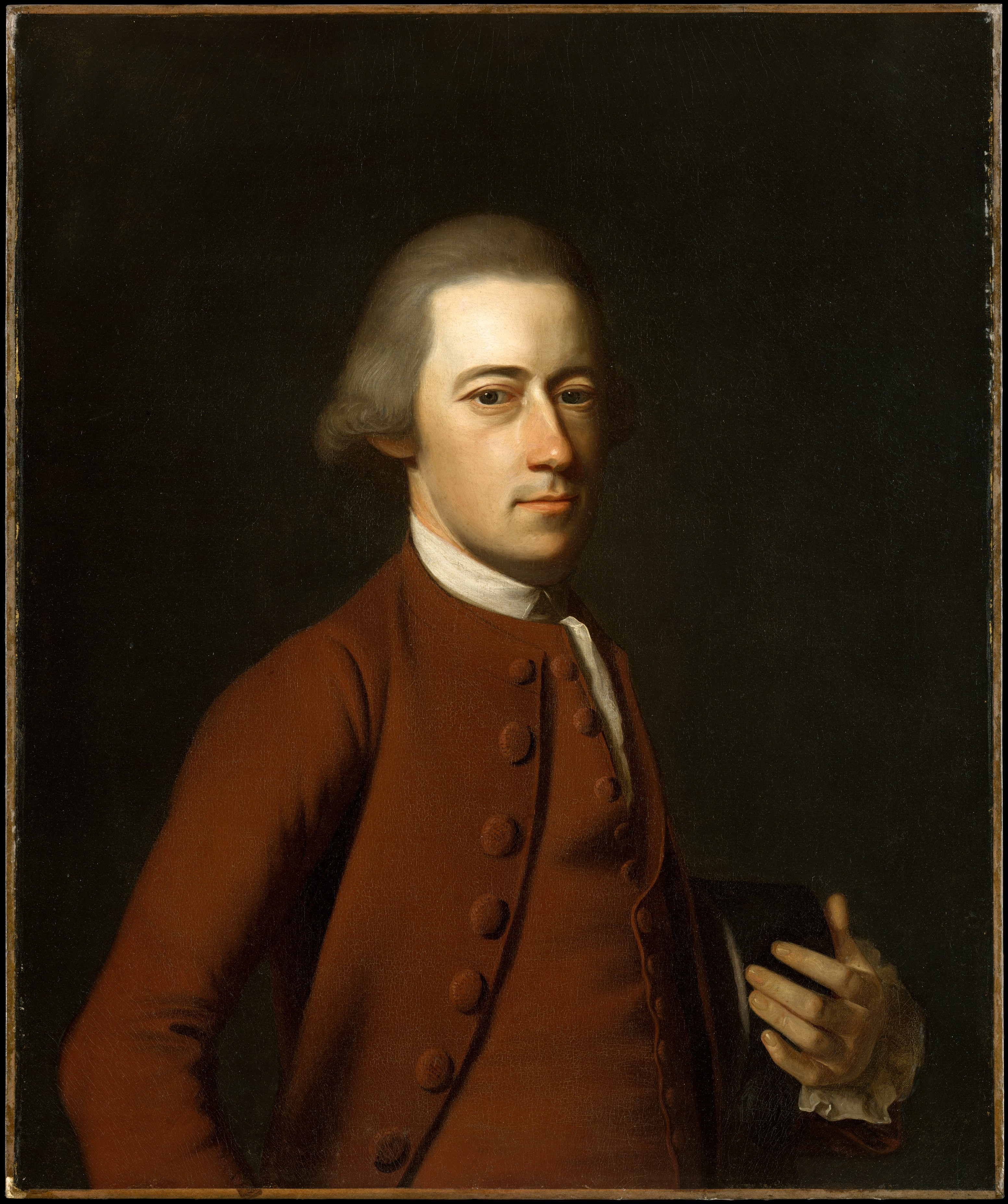 Samuel Verplanck Geography: Made in New York, New York, United States Classification: Paintings Credit Line: Gift of James De Lancey Verplanck, 1939 This portrait of Samuel Verplanck (1739–1820) is unsigned and undated but can be assigned to 1771, when Copley made his sole trip to New York. The artist also painted Samuel Verplanck’s brother Gulian as well as his son, Daniel Crommelin Verplanck.